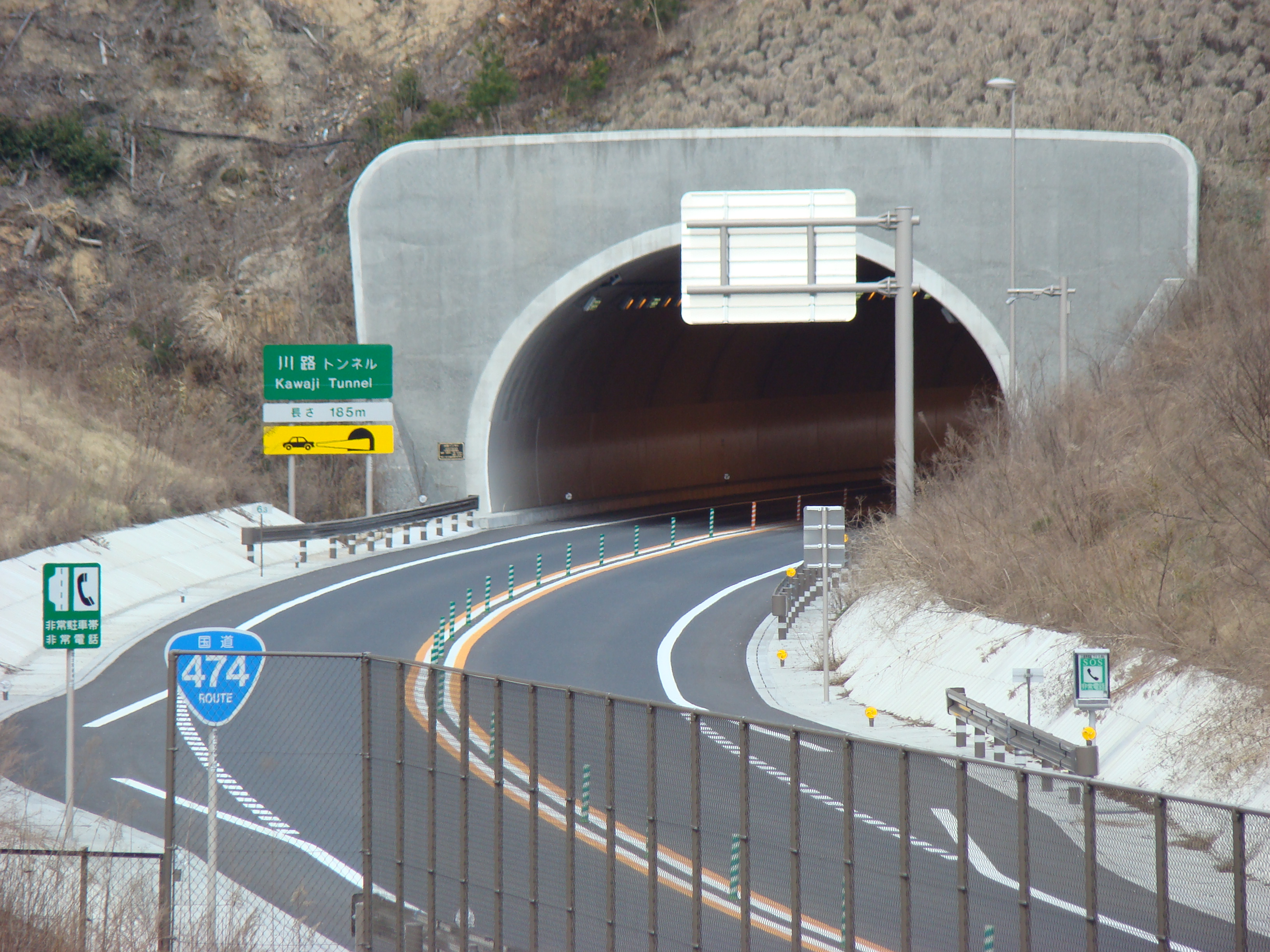 San-En-Nanshin Expressway（Route 474Iidaka Road）and kawaji Tunnel Place - Kawaji,Iida City,Nagano Prefecture,Japan Date - March 19, 2009 Format - JPEG, 3264x2448pixel, 24bit colors. Photographer - NALA Wiki (talk)